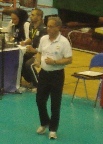 Julio Velasco, Iran-Serbia match, 2013 World League First Round